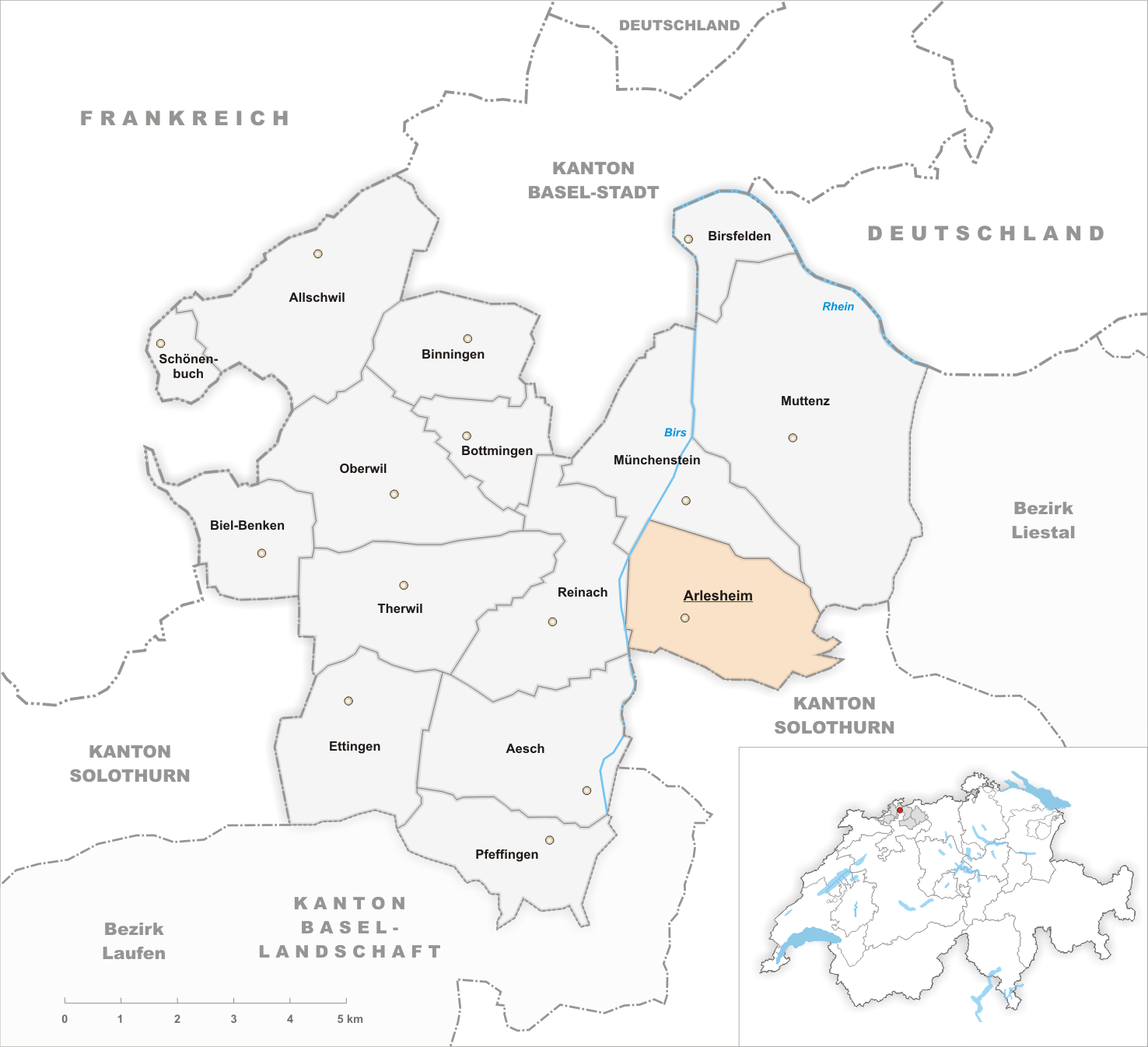 Municipality Arlesheim